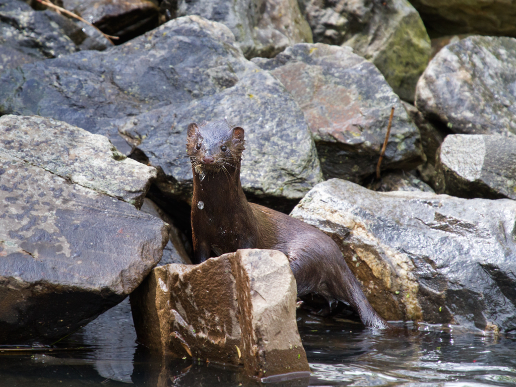 An American Mink perches over the Capisic Pond in Portland, ME.